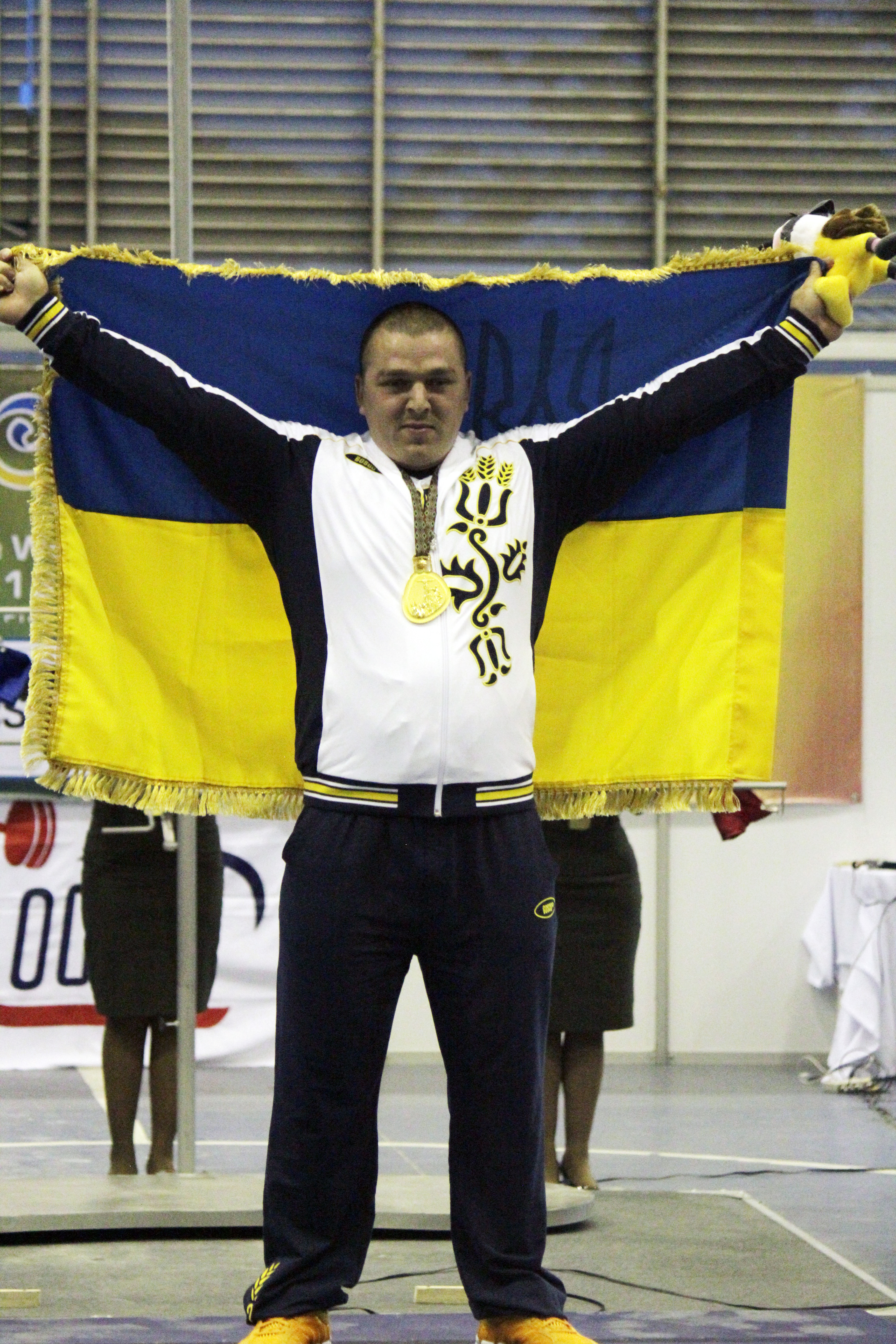 Photo of Vadym Dovhanyuk at World Games 2013